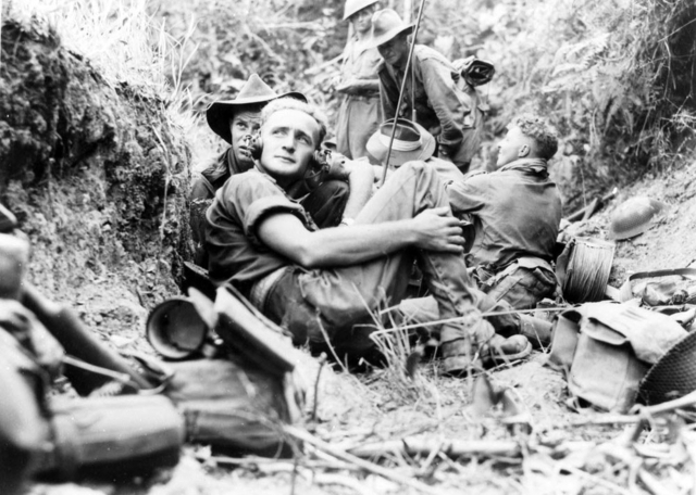 An infantry company signalling position on Labuan on 26 June 1945